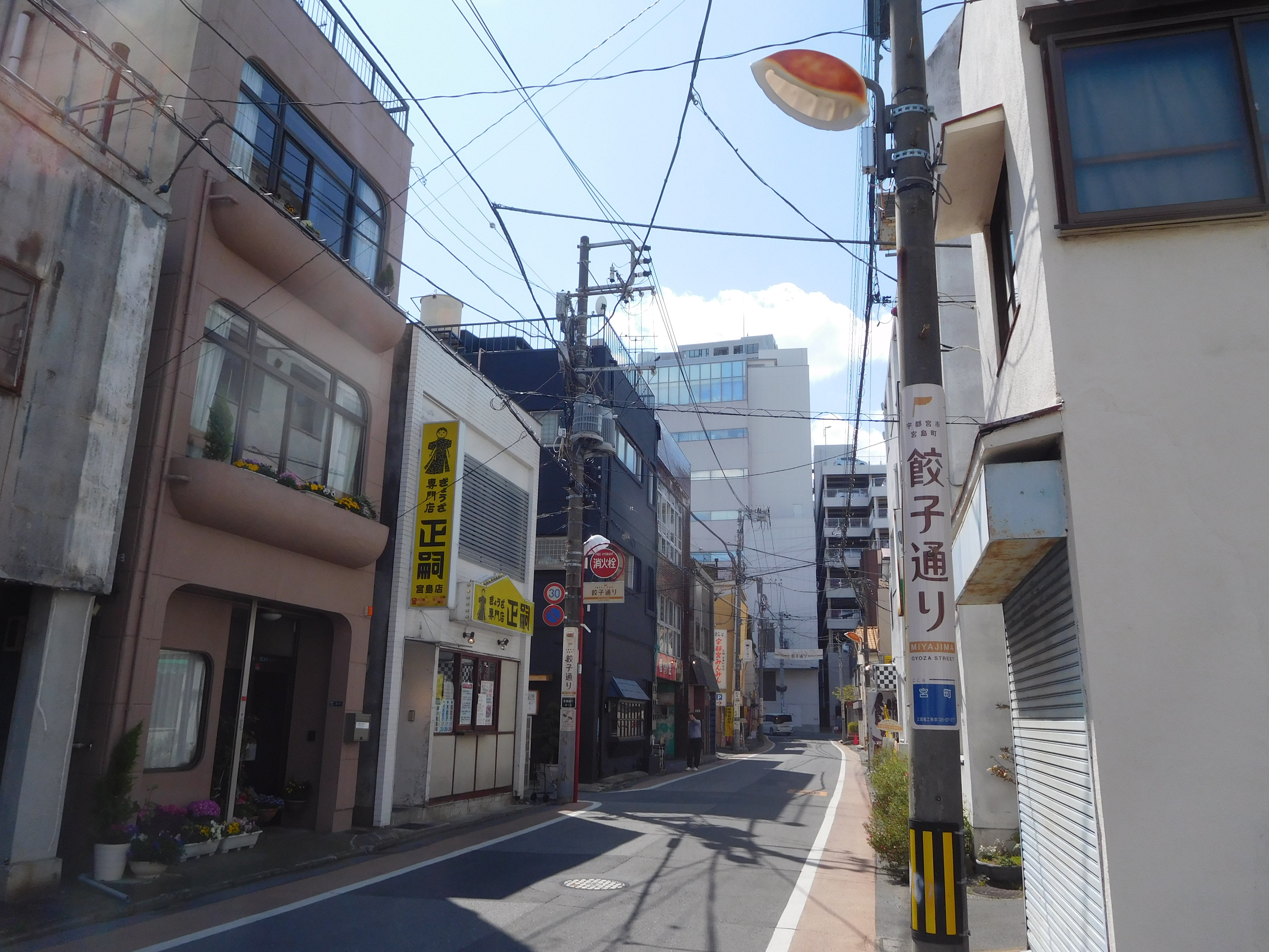 This is Gyoza Street in Utsunomiya, Tochigi, Japan.